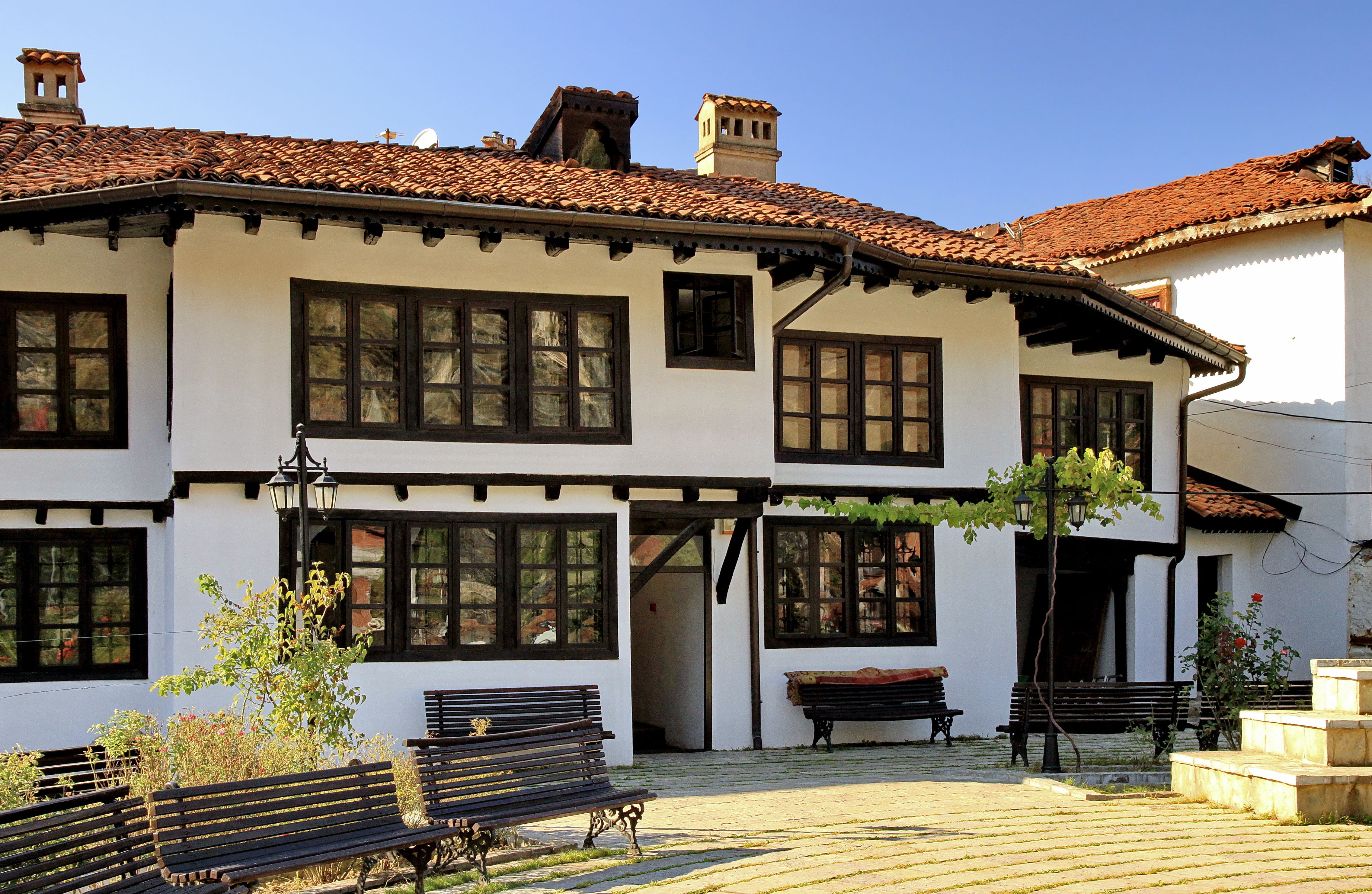 The League of Prizren building. Prizren, Kosovo